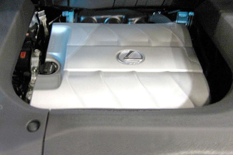 2GR-FE